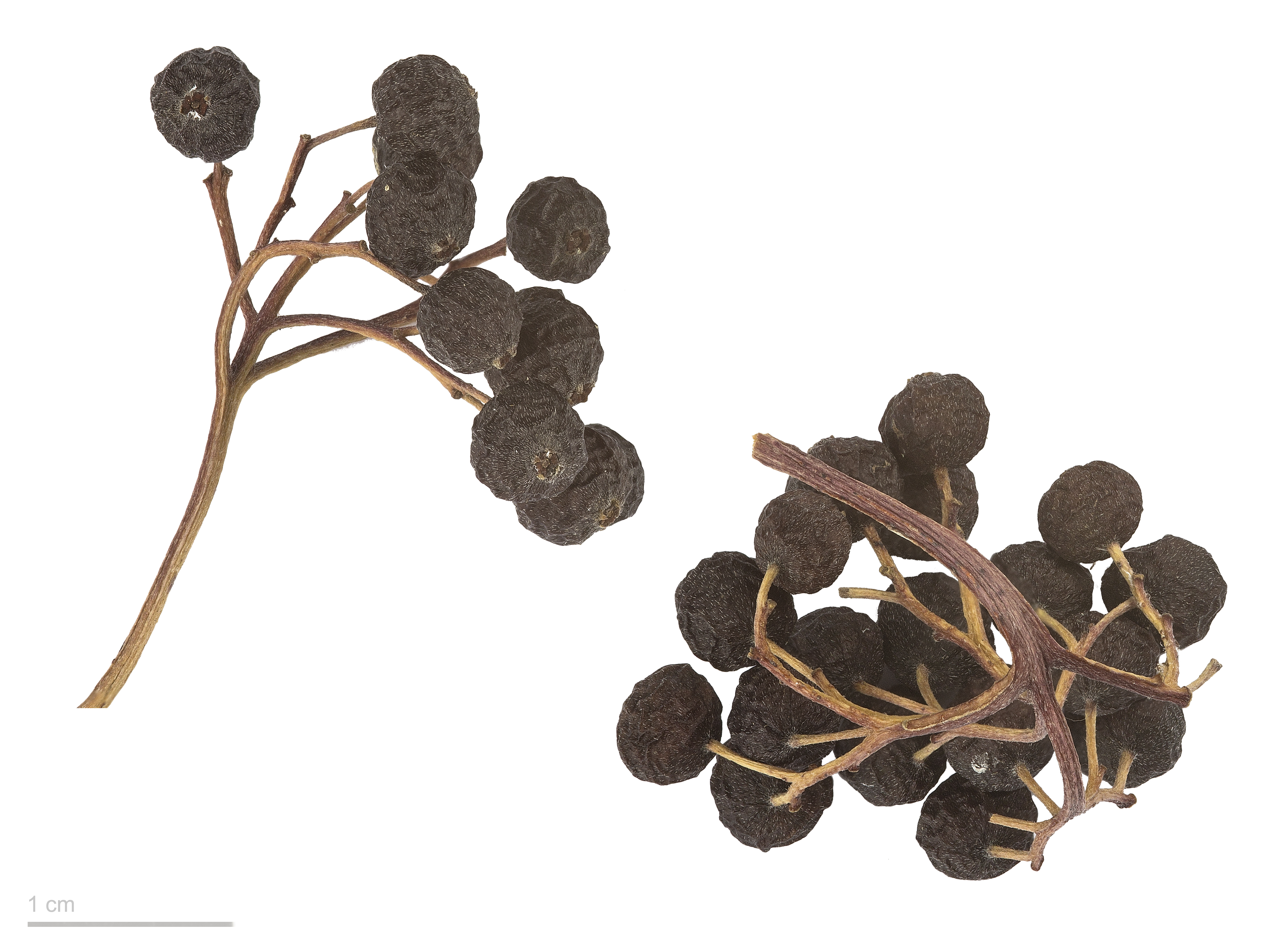 common dogwood , fruits and seeds